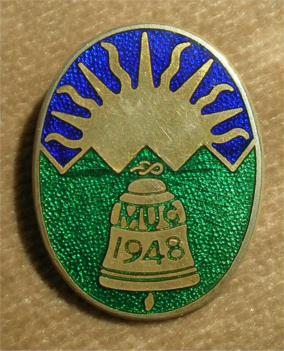 A lapel badge of the Manchester Universities Guild of Change Ringers, circa 1973, showing the date of founding (1948) and the colours and emblem of the University of Manchester. Photographed by me Oosoom.